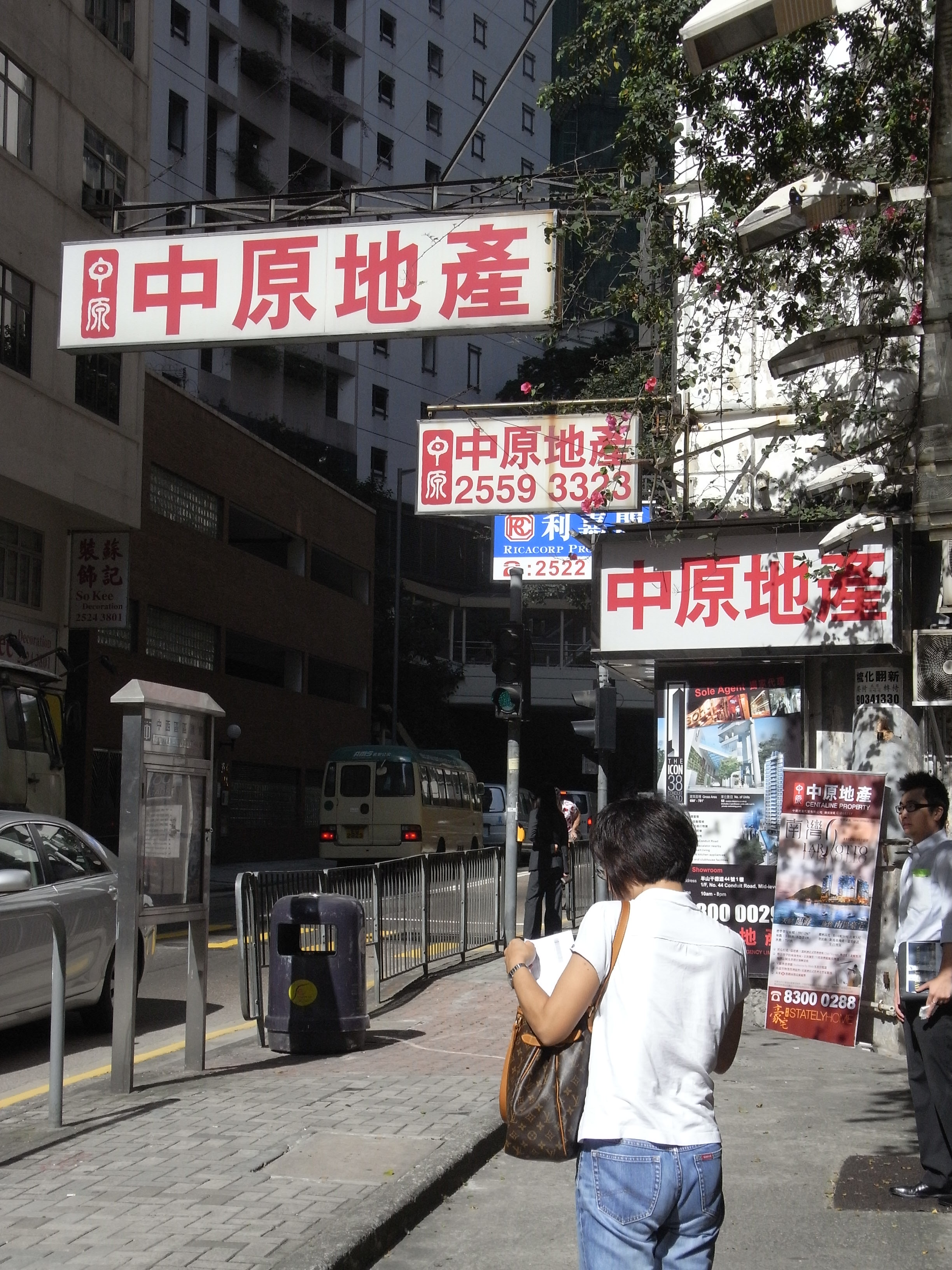 中原地產